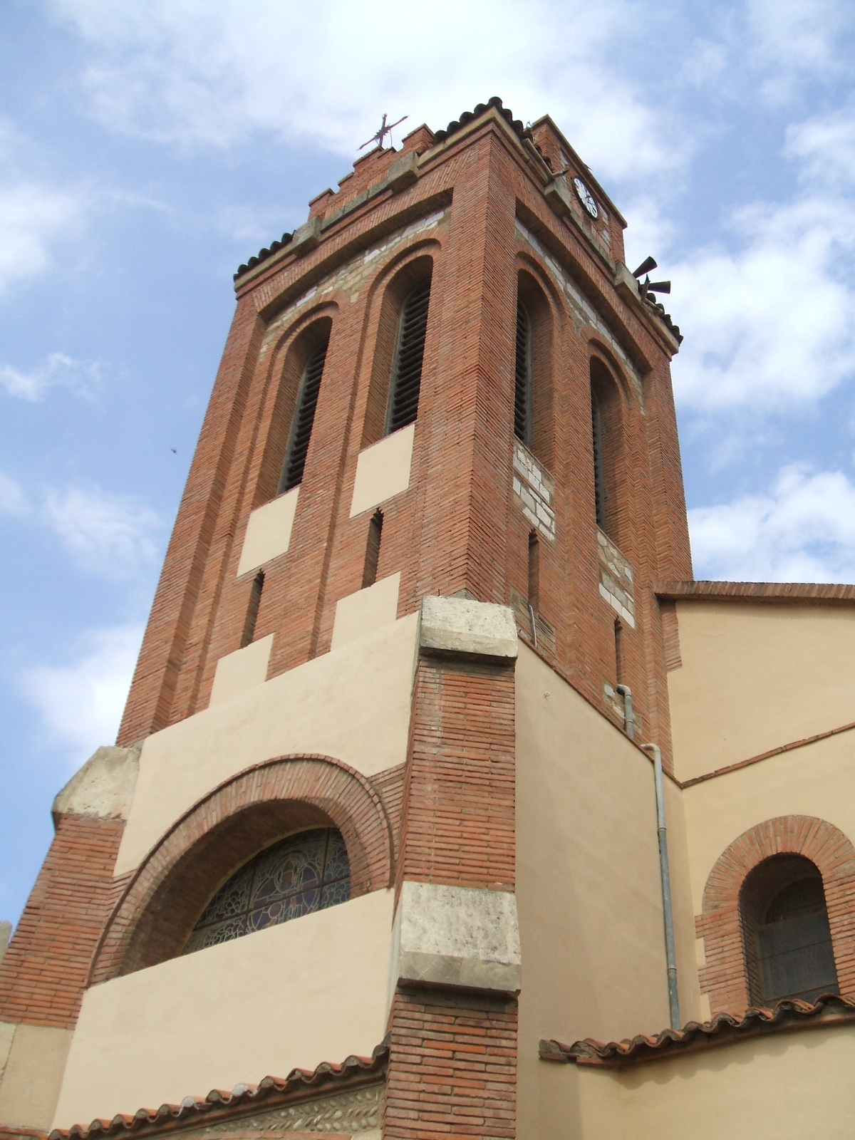 Saint-Julien-et-Sainte-Basilisse Church, in Torreilles (département of Pyrénées-Orientales, Languedoc-Roussillon région, France). Belltower.